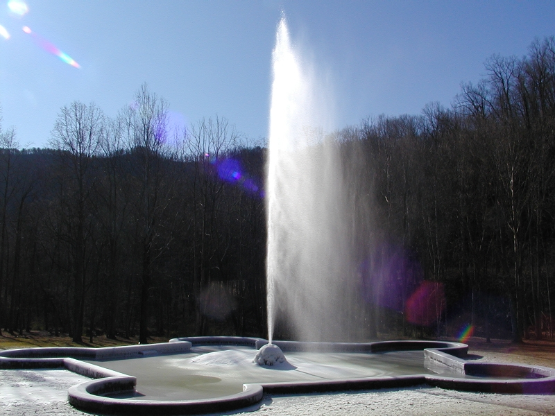 Andrews Geyser, Old Fort, NC, with a small amount of winter ice forming.